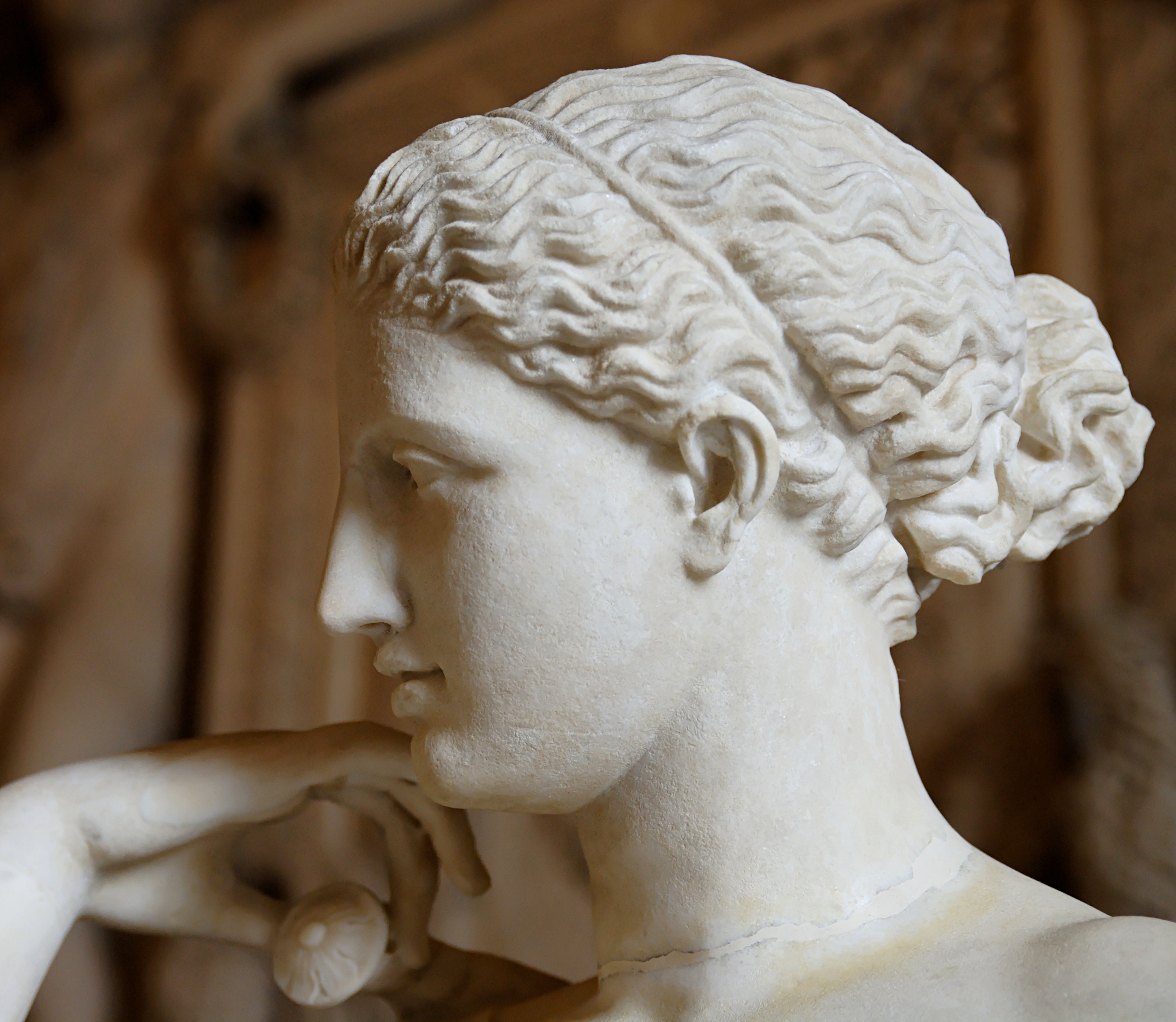 So-called Artemis of Gabii, detail. Marble, Roman copy of the reign of Tiberius (14-37 CE) after a Greek original traditionnally attributed to Praxiteles. Found in 1792 by Gavin Hamilton at Gabii, Italy.